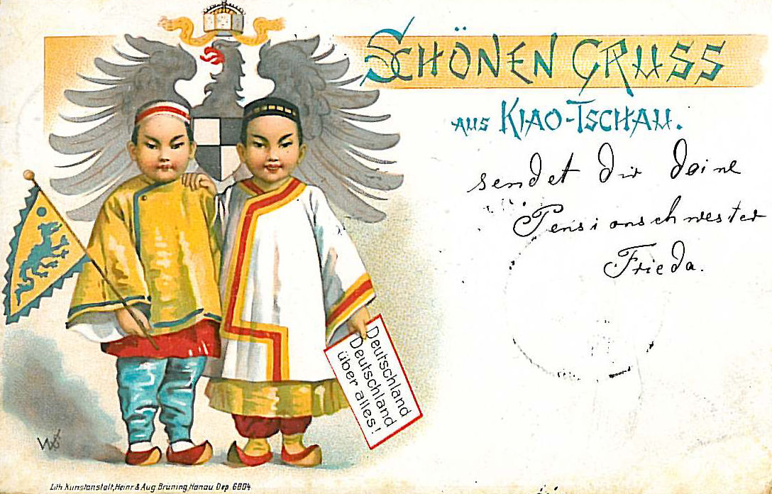 Historical postcard of China